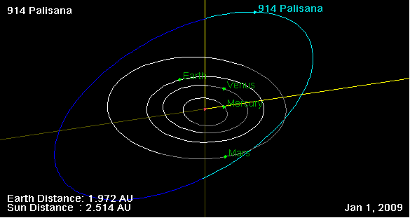 914 Palisana orbit, and his position on 01 Jan 2009 (NASA Orbit Viewer applet)